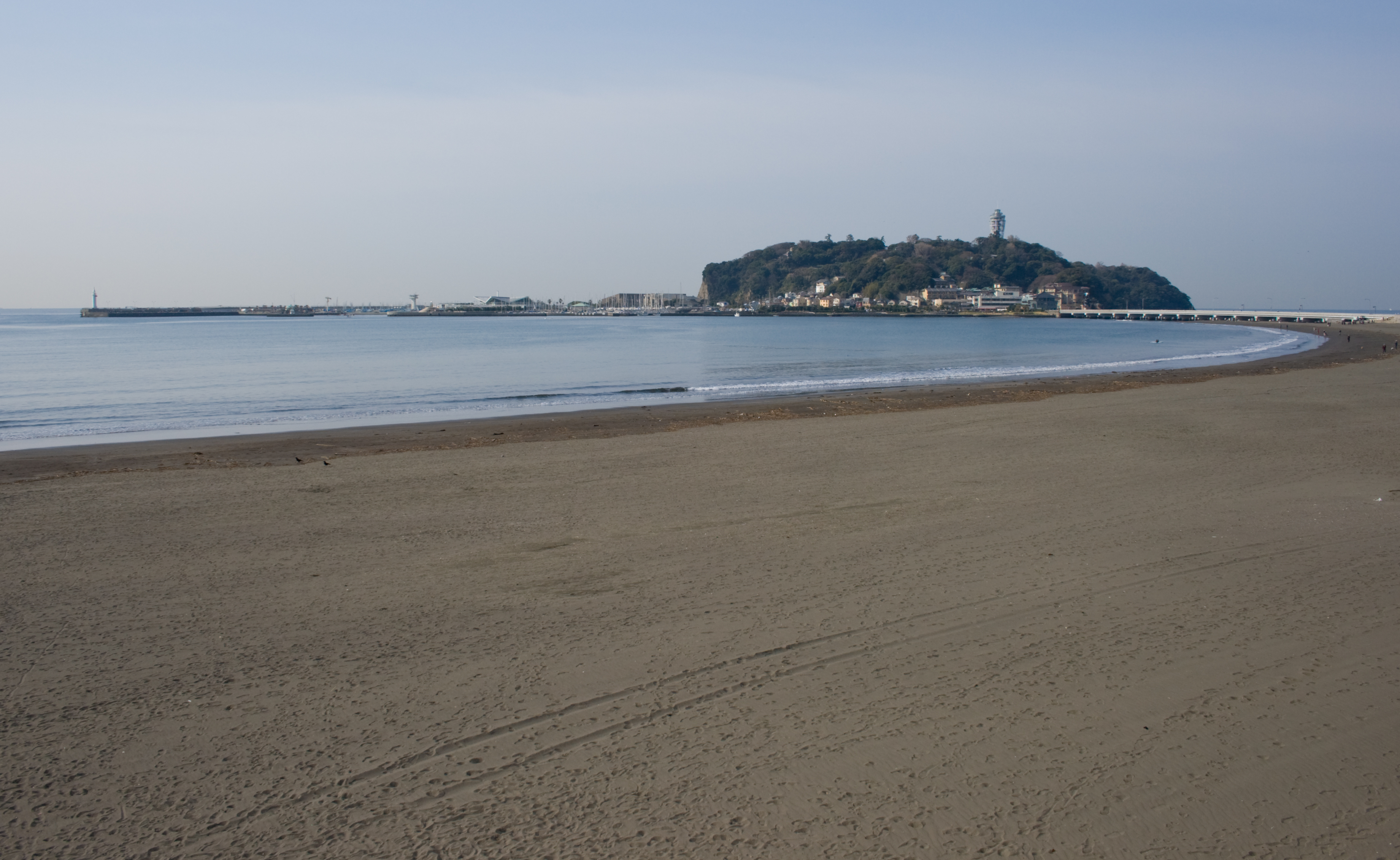 Enoshima Island